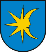 Coat of arms of the municipality of Eppan an der Weinstraße, South Tyrol.